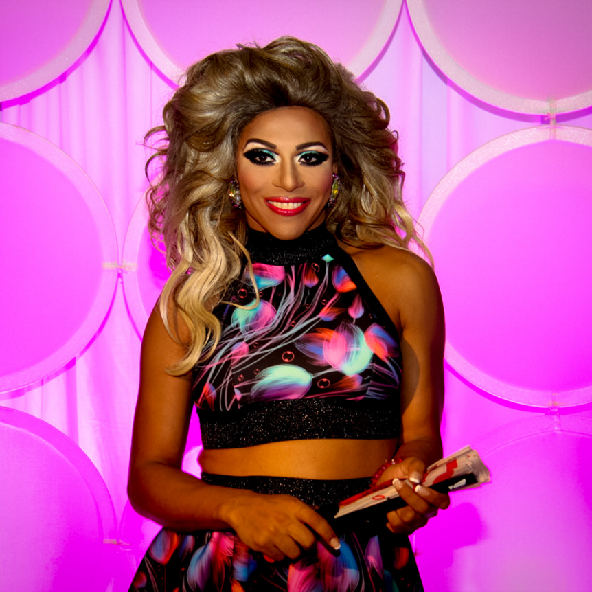 Shangela Laquifa Wadley at DragCon, April 2017.png